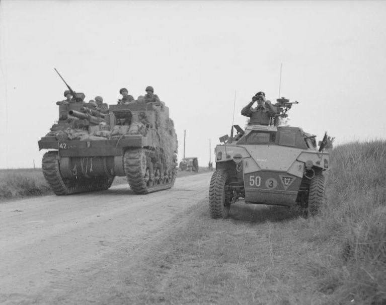 M7 Priest with 105 mm self-propelled gun passes by a Humber scout car of the 79th Armoured Division to join attack on Caen during Operation 'Charnwood', 8 July 1944.